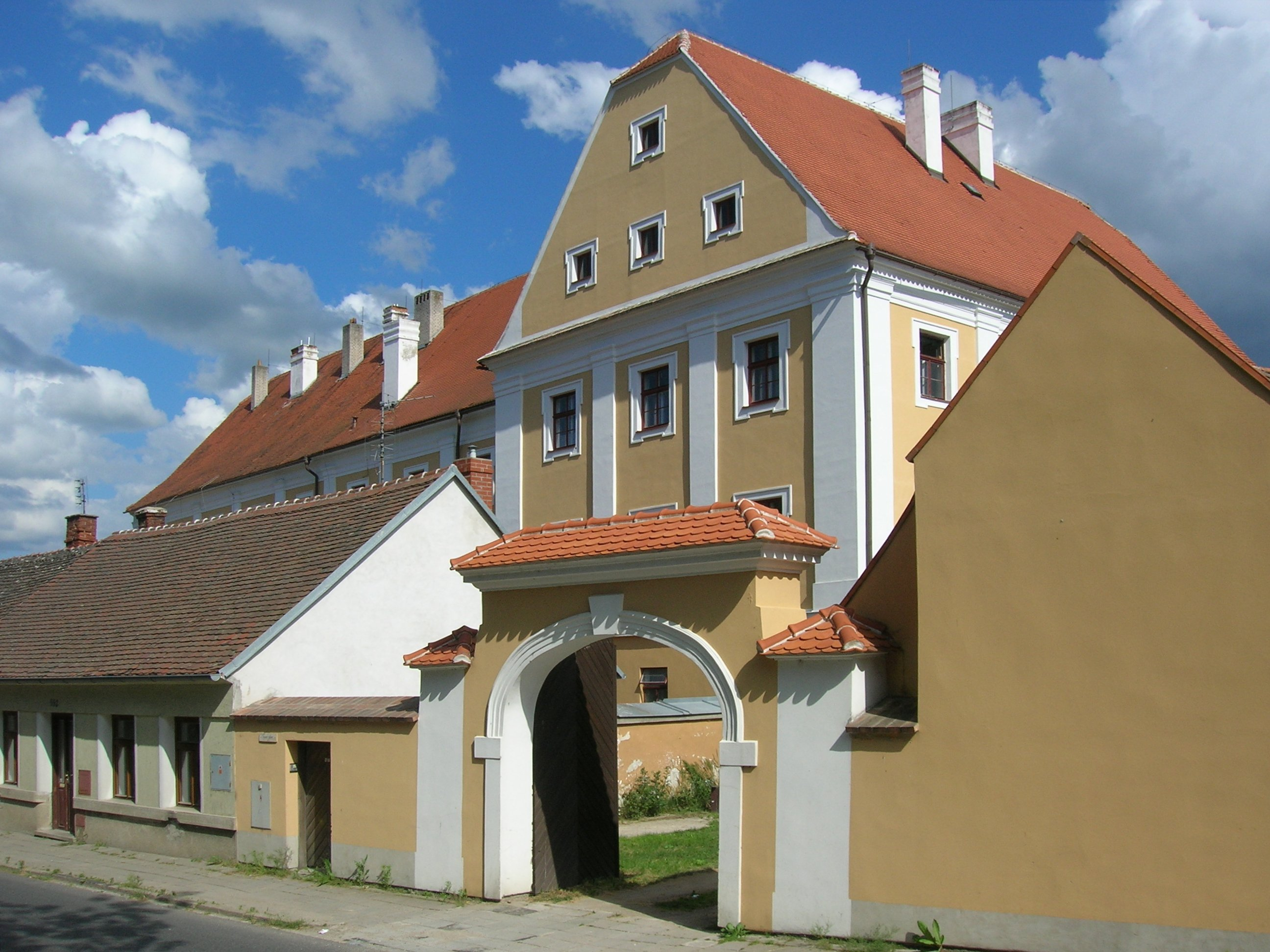 Jaroměřice nad Rokytnou. Former servite monastery